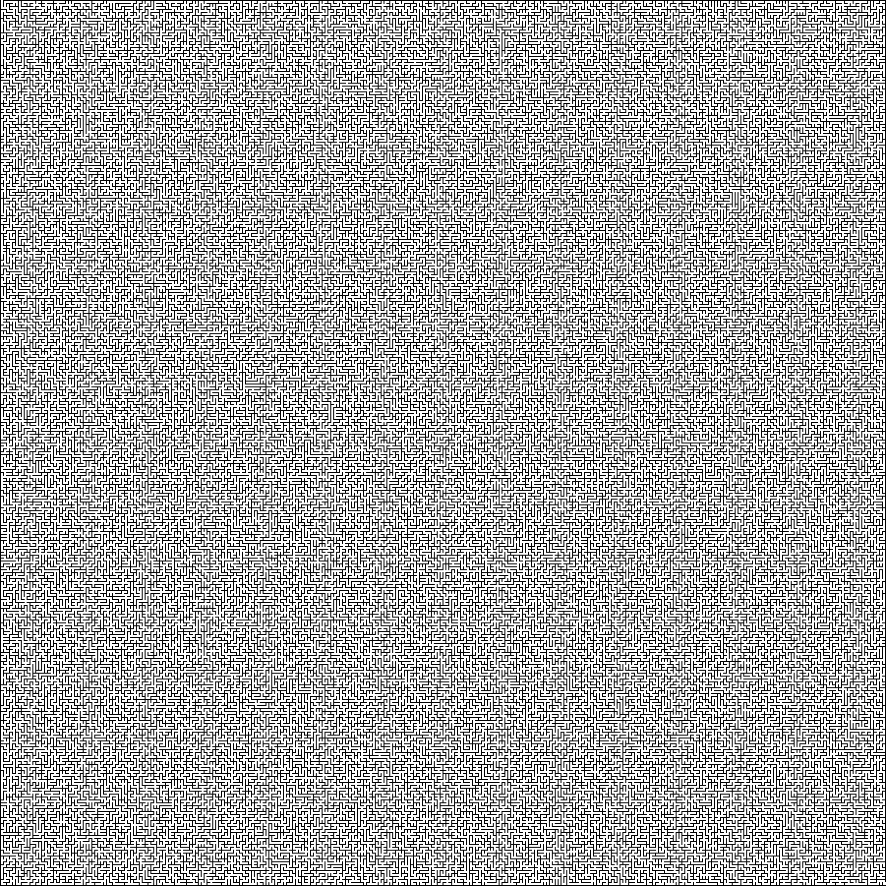 An extremely large and complicated maze generated in the same fashion as File:Mazegeneration.gif, demonstrating the effectiveness of the algorithm. I regret to say that this maze has wasted many people's time, although now it has been superseded by File:MAZE 2000x2000 DFS.png (which I also made) as the most complex maze on Wikipedia.